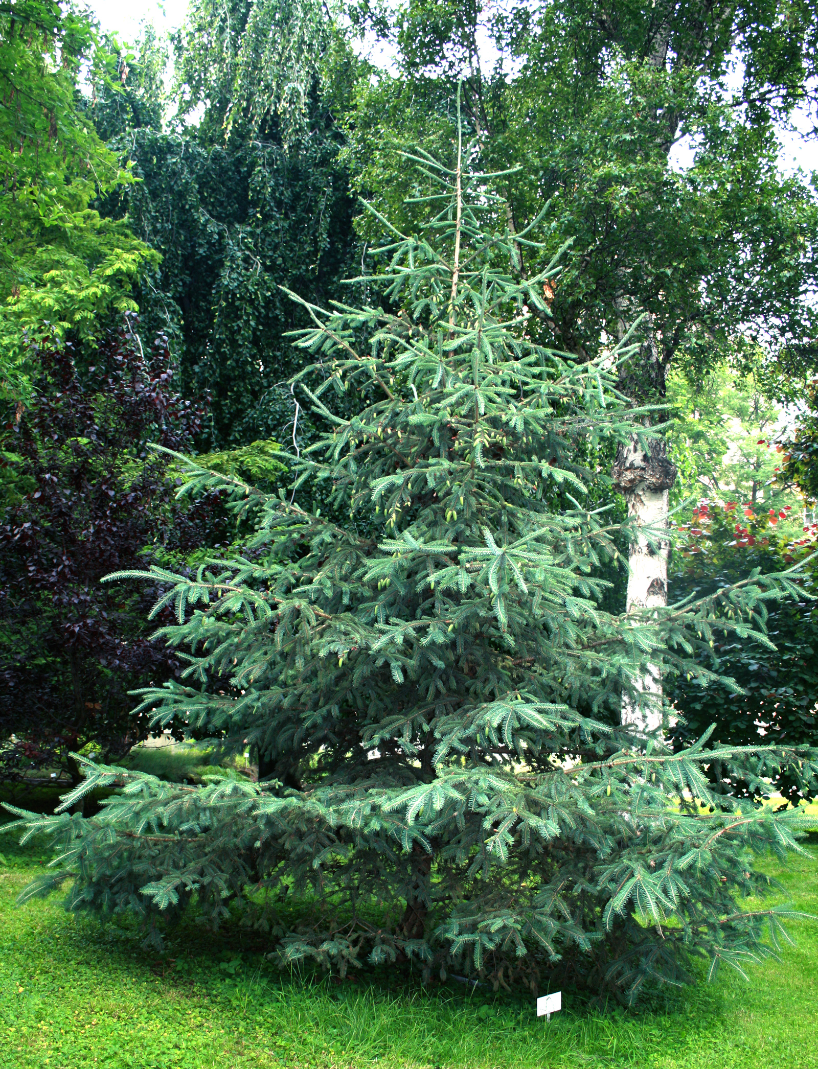 Picea glauca, Picea glauca from Botanical Garden of Charles University in Prague, Czech Republic